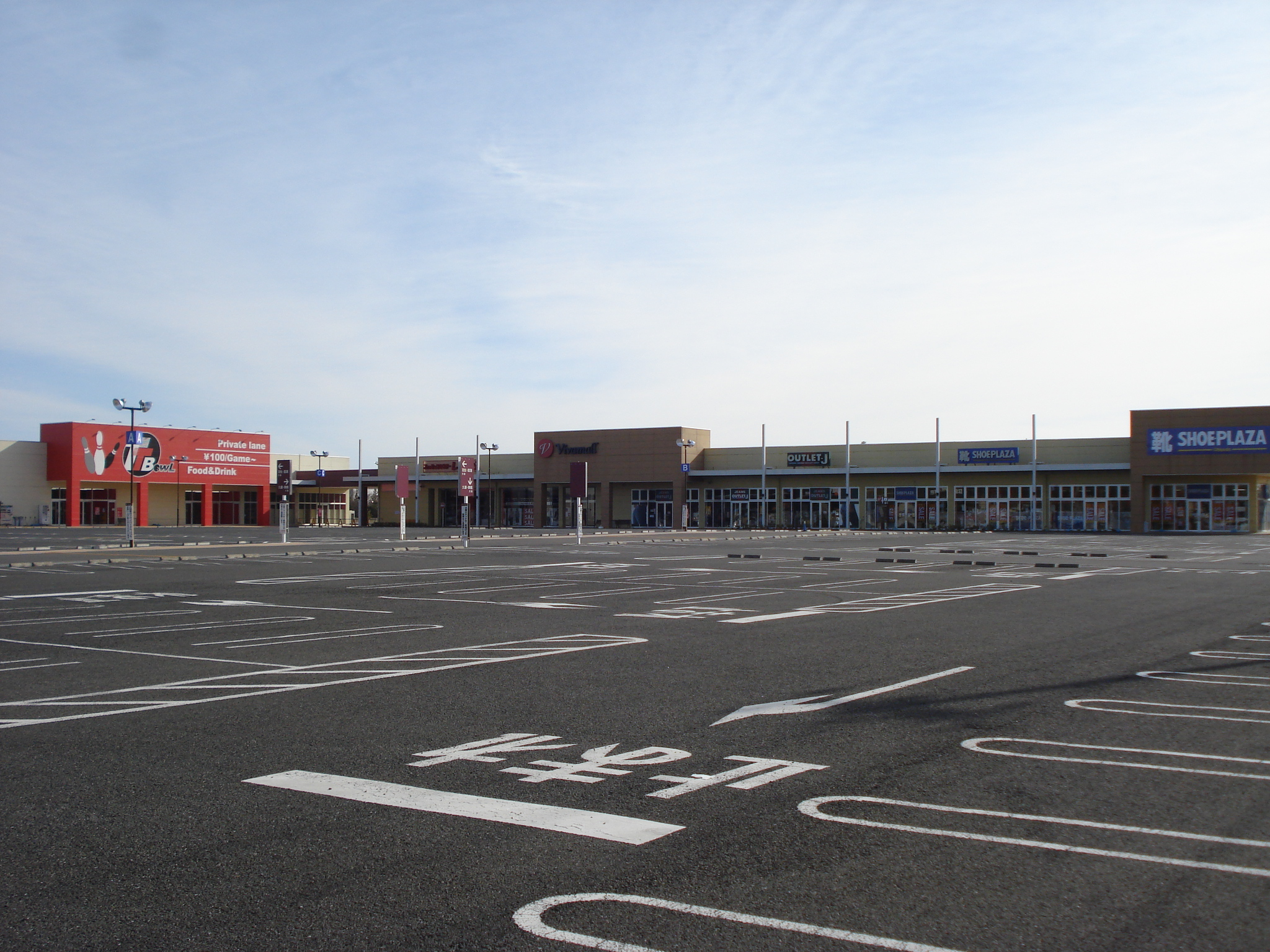 Vivamall Kazo nibangai in Kazo City, Saitama Prefecture, Japan